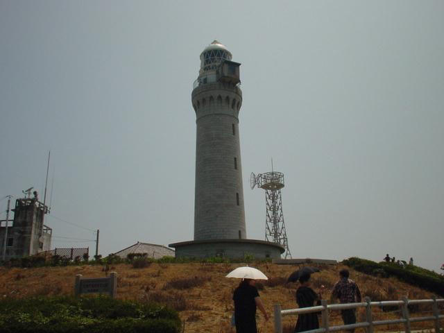 Tsunoshima lighthouse, Shimonoseki, Japan, the last design by Richard Henry Brunton, first illuminated on March 1, 1876. Photograph by Ian Ruxton (Historian)